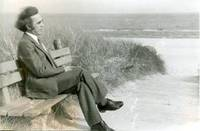 photo of Horst Meyer-Selb